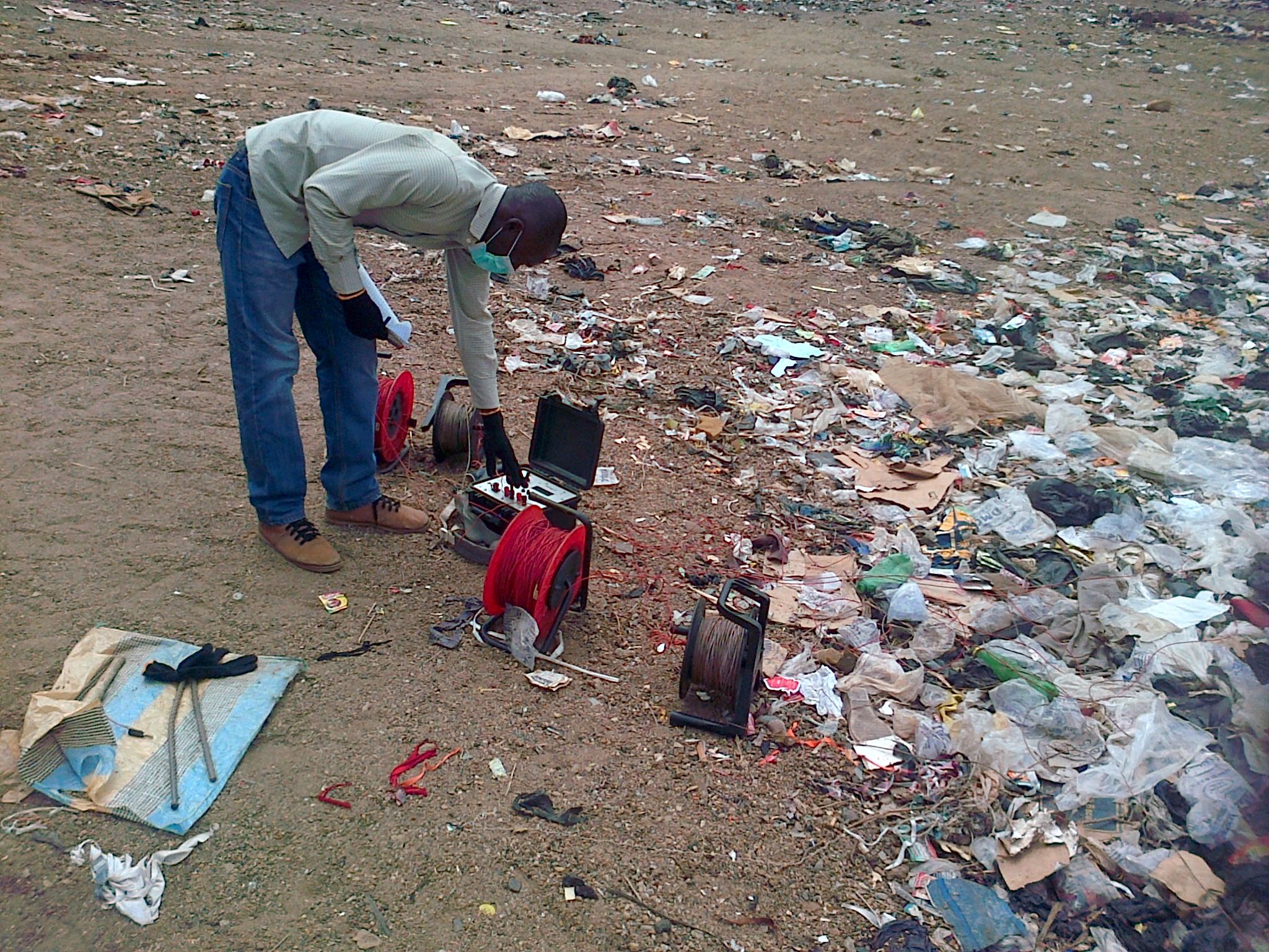 African People at Work - Geophysical Investigation of Dumpsite Leachate Plumes This is an image of "African people at work" from Nigeria